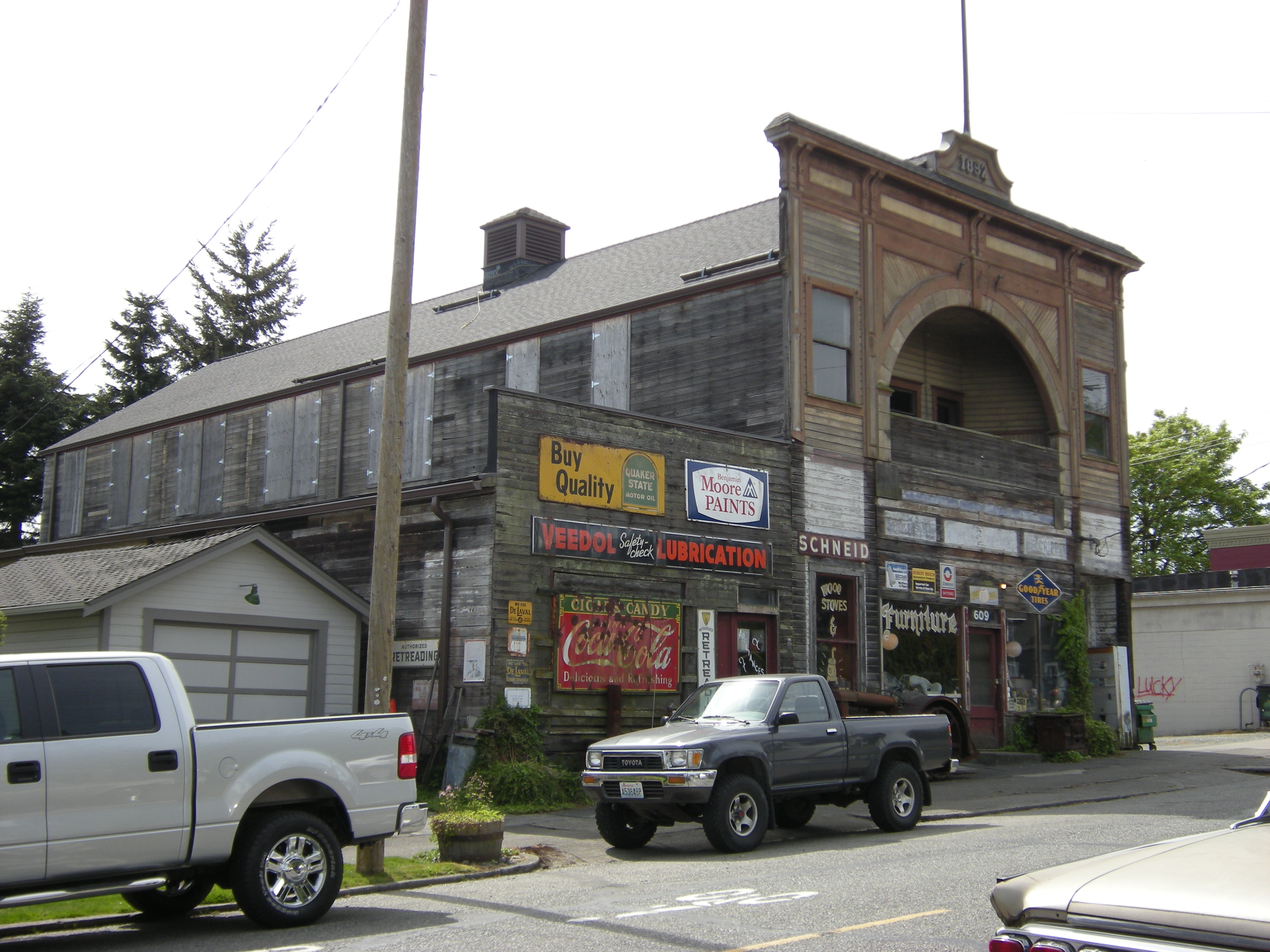 The onetime Alcazar Opera House, 609 First Street, Snohomish, Washington. Built 1892.